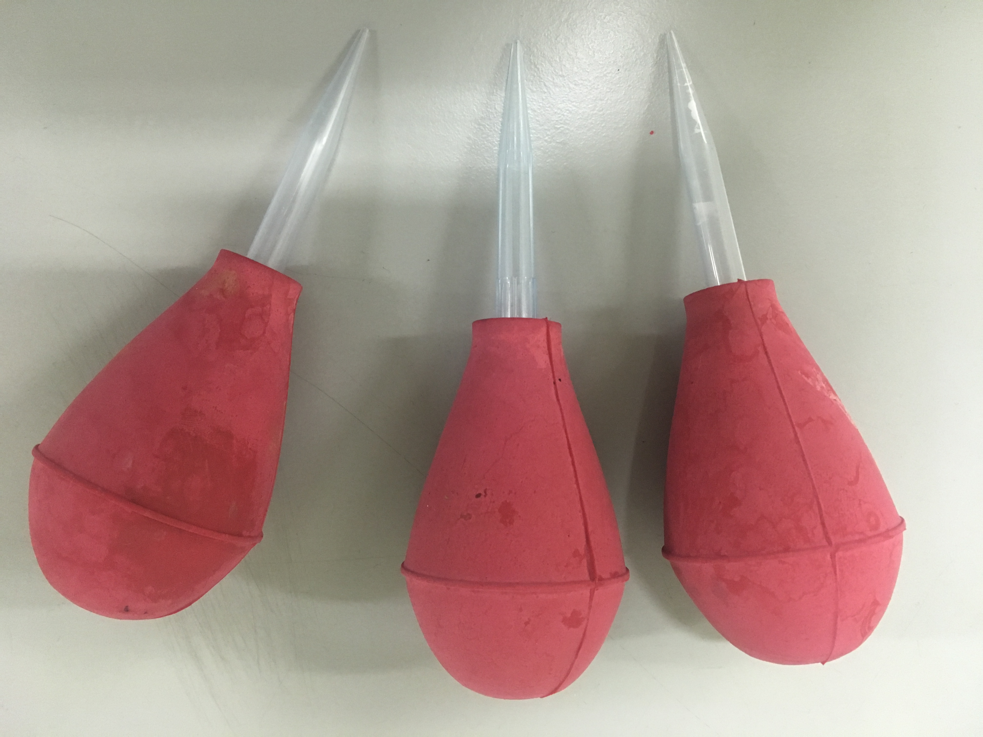 Use for suck up the liquid to the graduated pipette